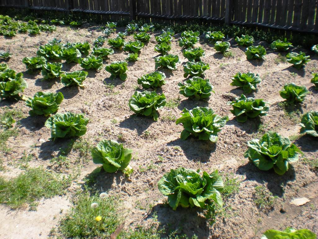 Vegetable garden at Colonial Williamsburg